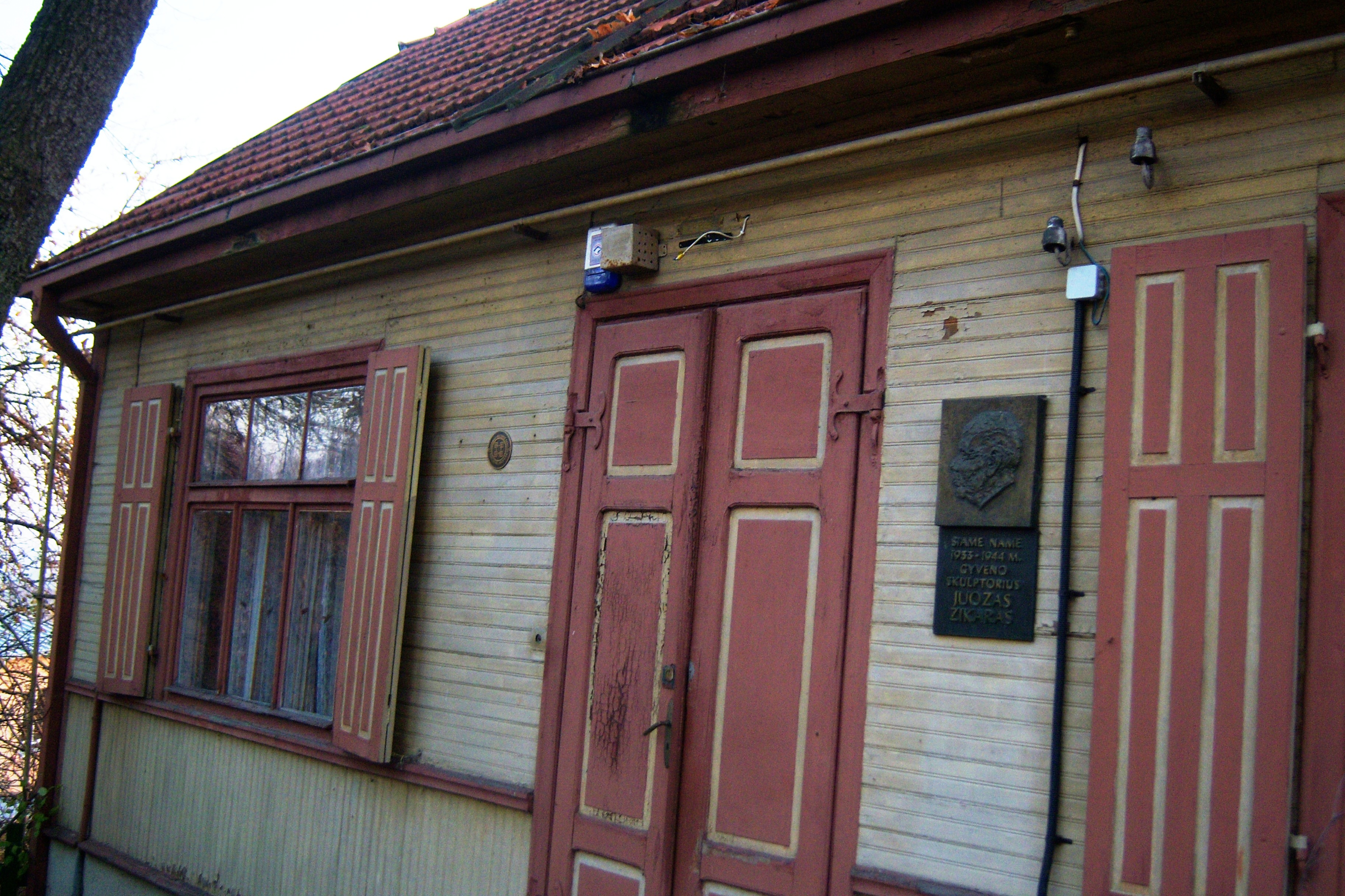 House-museum of sculptor Juozas Zikaras in Kaunas, Lithuania.